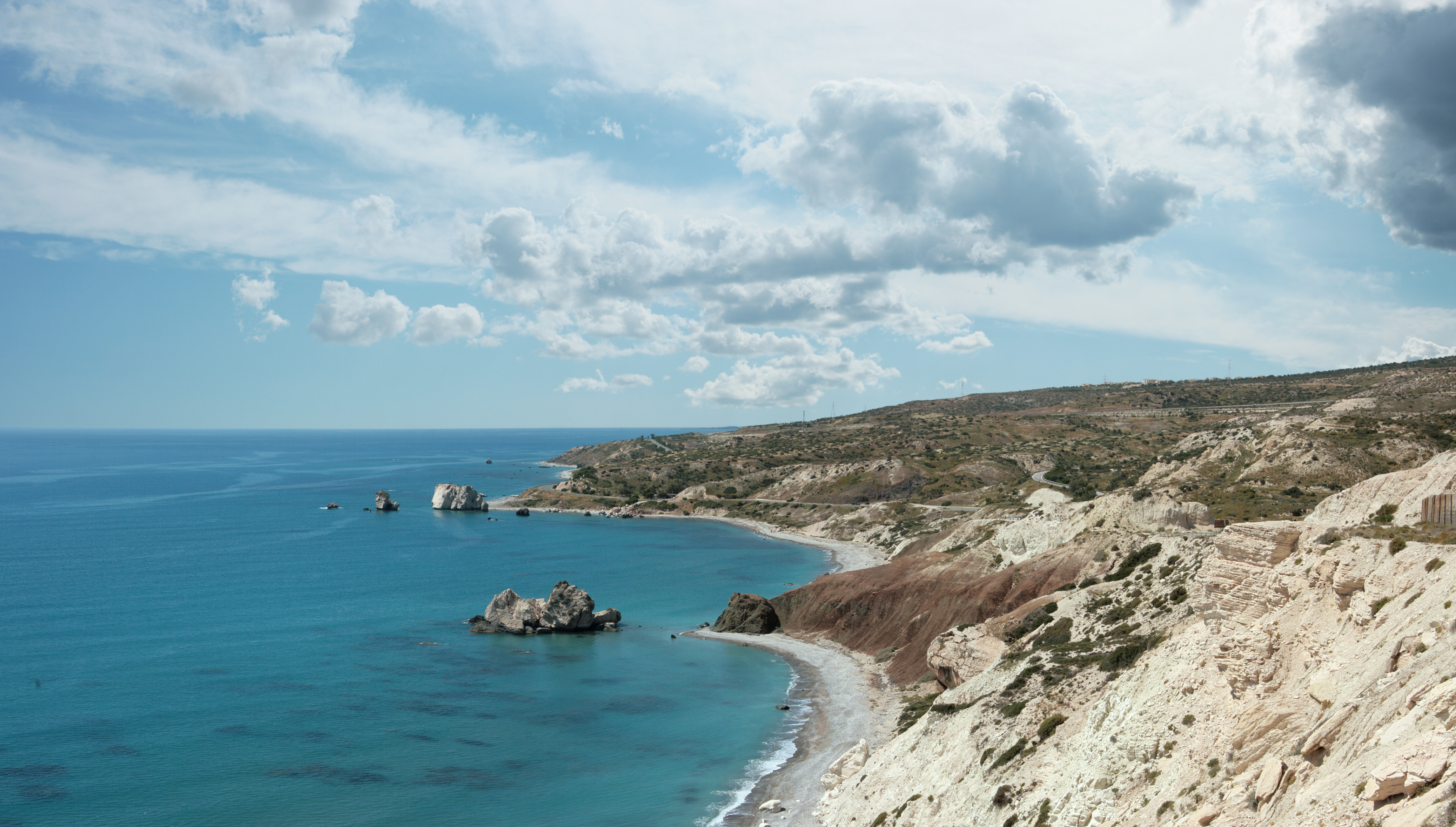 Petra Tou Romiou (Rock of the Greek), or Aphrodite's Rock